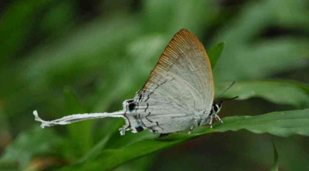 Common Imperial (ফিতেফুলকি), found in Kolkata,West Bengal